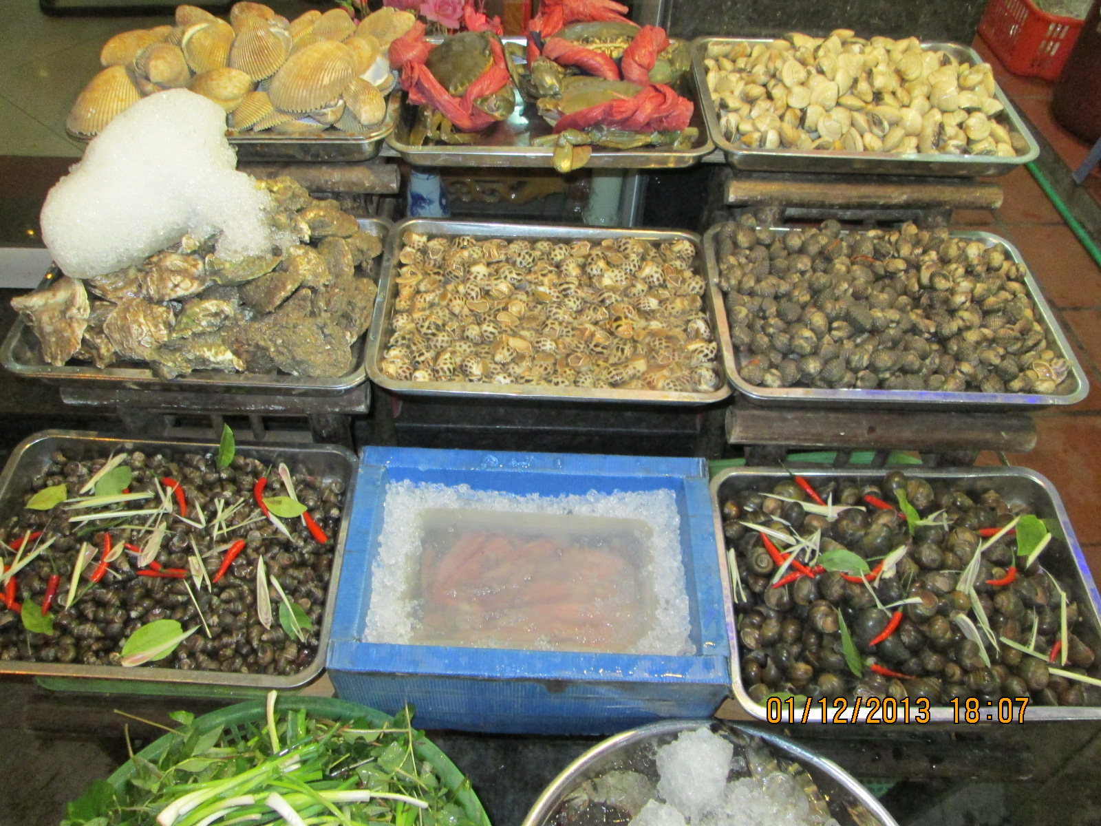 Only in Vietnam ! Exotic and a variety of sea food at a street side restaurant outside "Lake Side Hostel" on Cau Go Street.